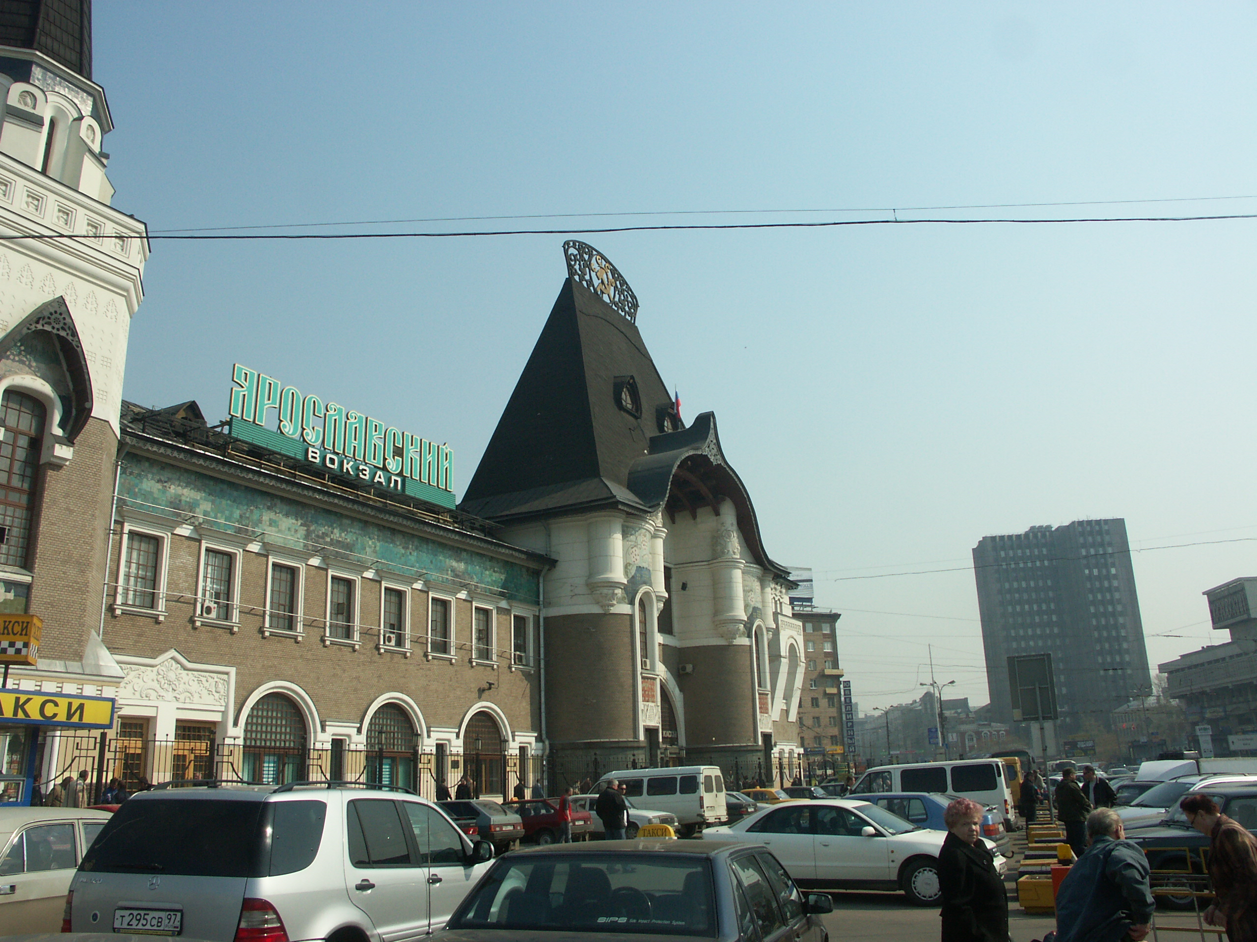 Yaroslavski rail terminal in Moscow